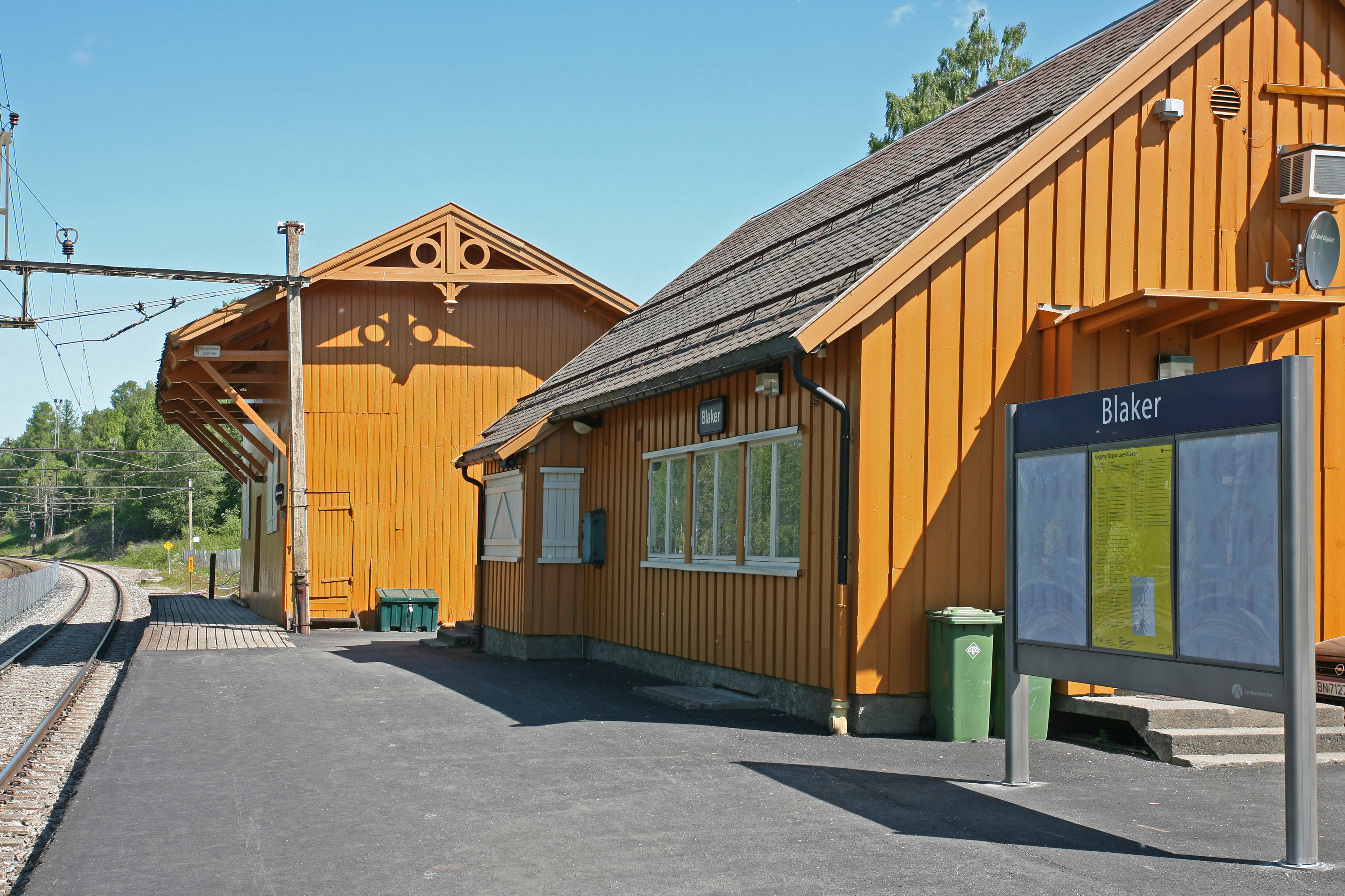 Picture of Blaker Railway Stasjon (Norway)